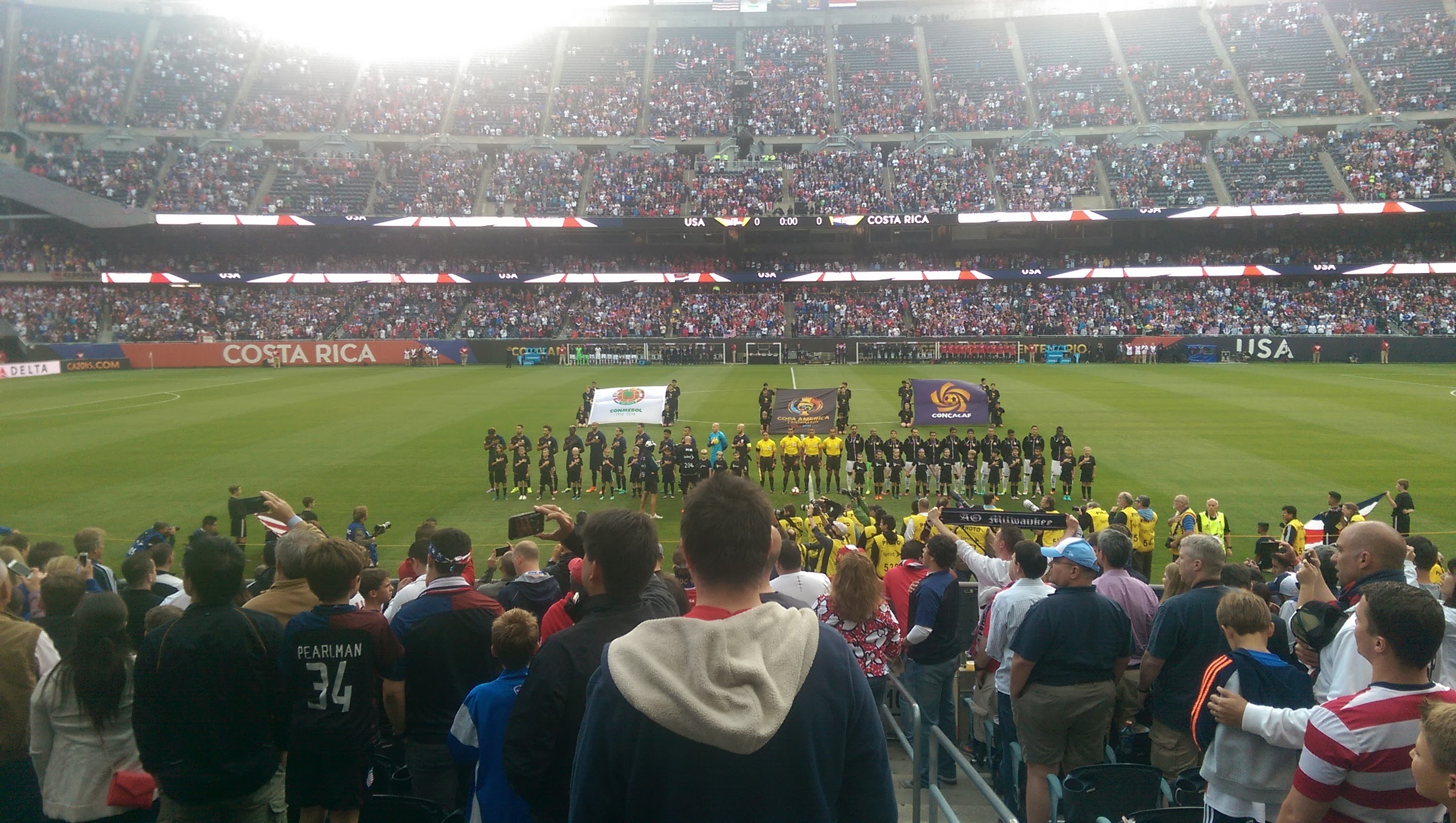 The USA and Costa Rica national men's association football teams lined up on the pitch prior to a match. Taken during a match of the Copa América Centenario at Soldier Field in Chicago, Illinois, USA.